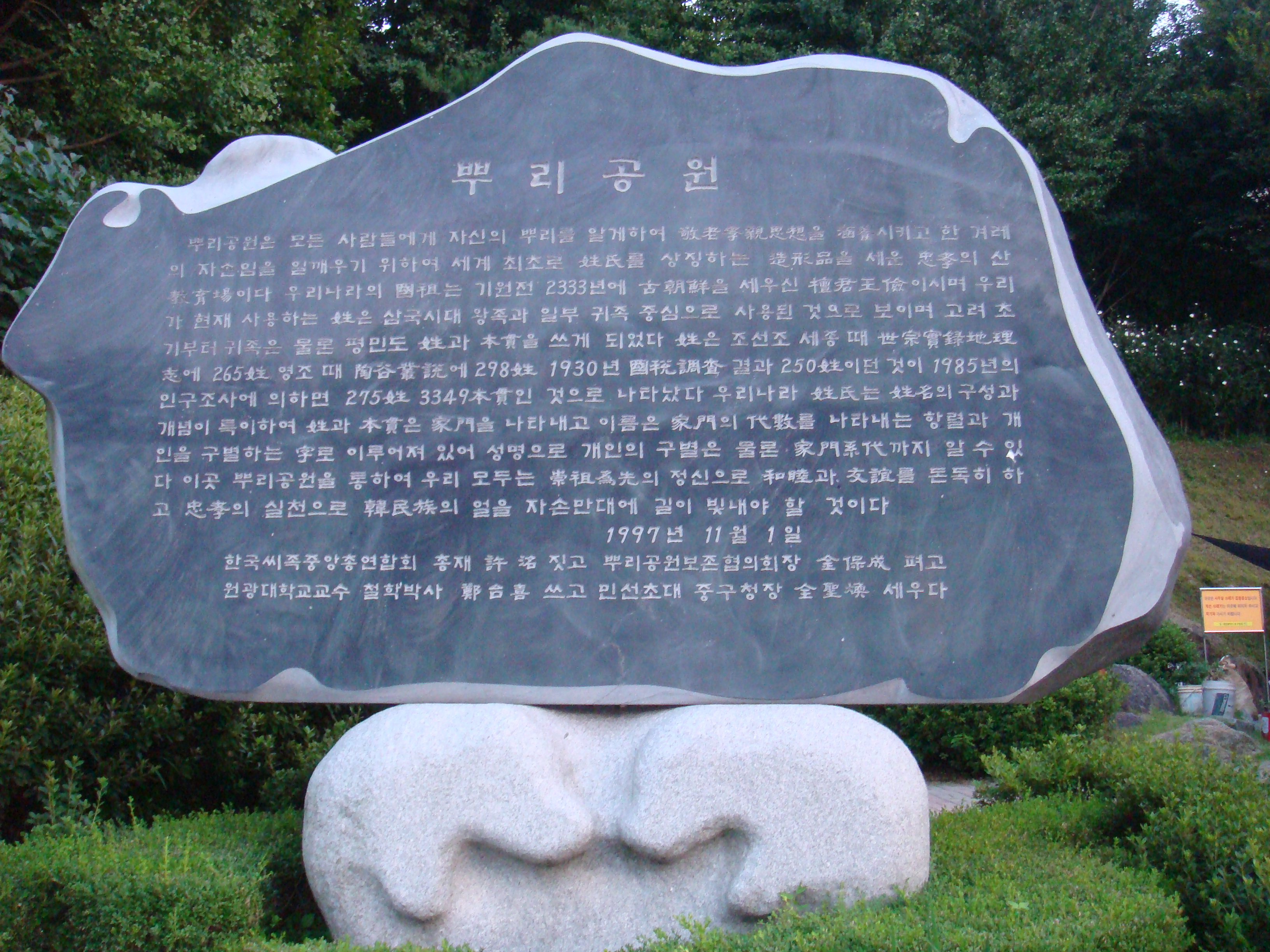 Park of Roots